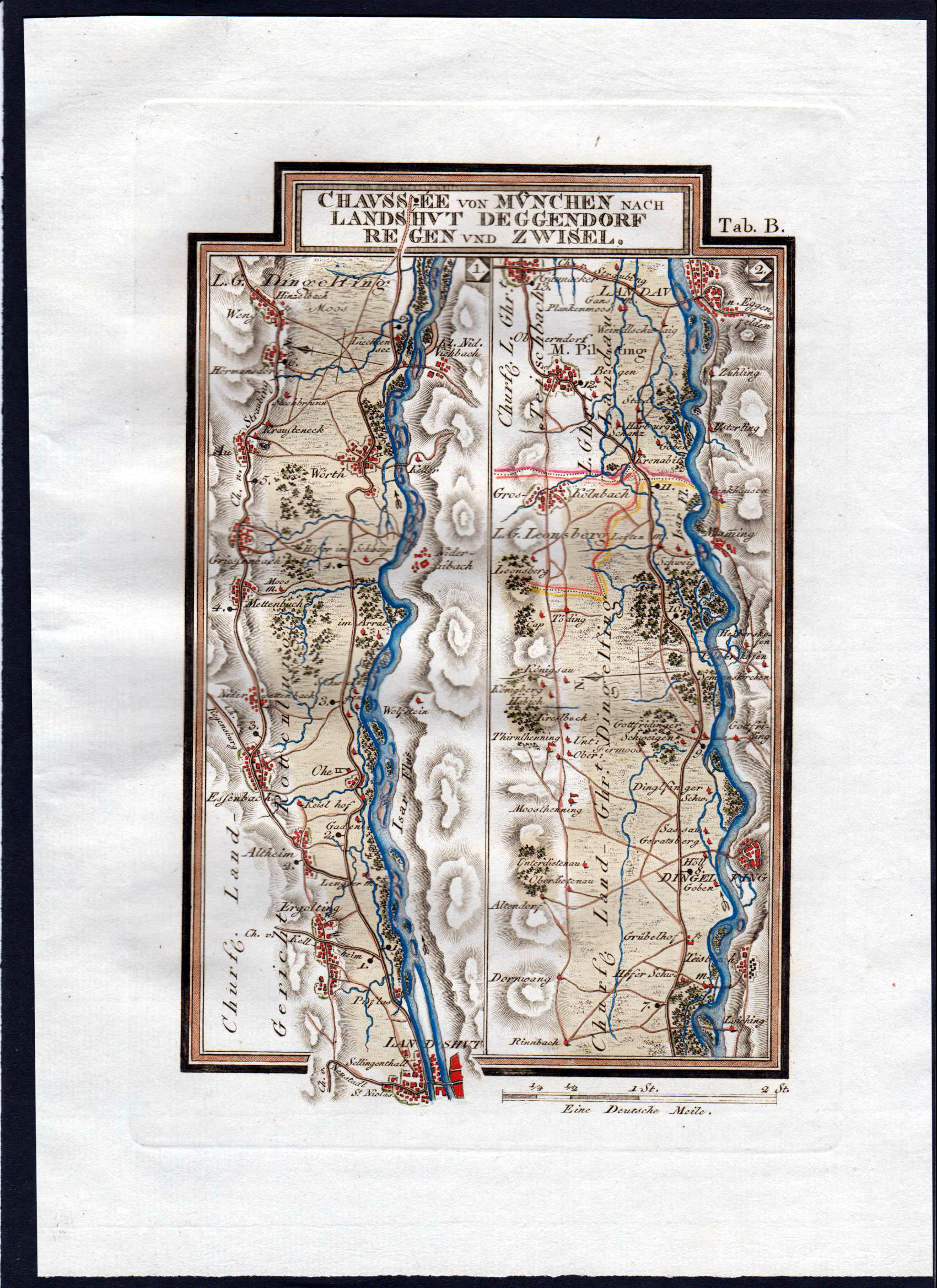 1796 map (copper engraving) low lower Isar river, lower Bavaria